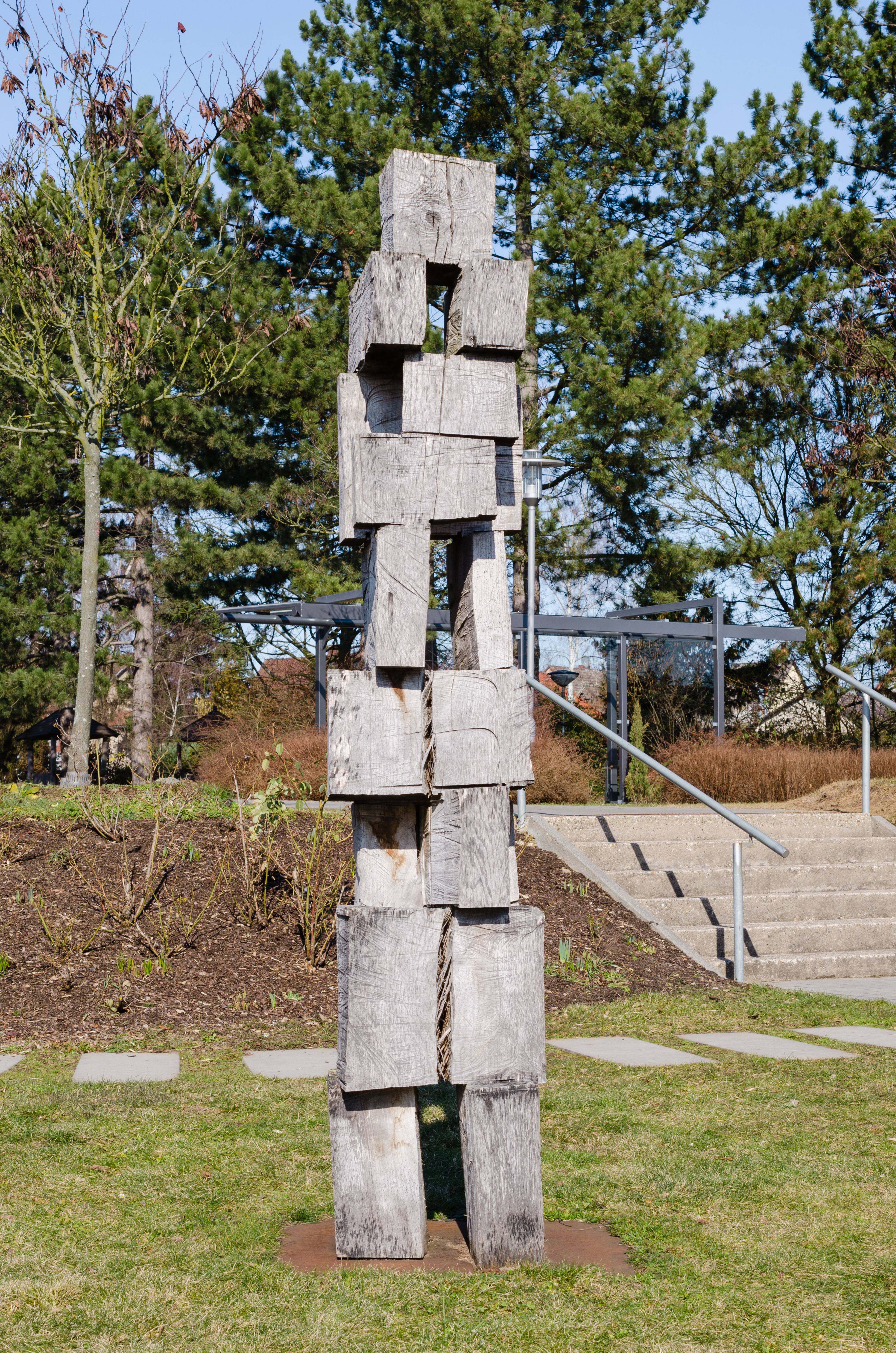 Sculpture Balance-Spiel by Ortrud Sturm, Mörfelden-Walldorf, Hesse, Germany.